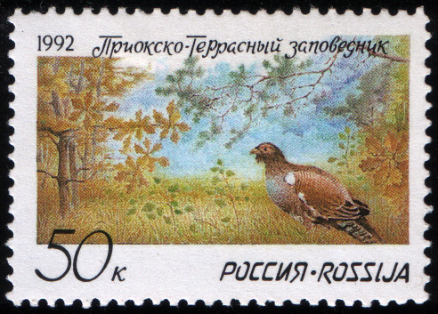 Stamp of Russia, Nature, Prioksko-Terrasnyi preserve, 1992